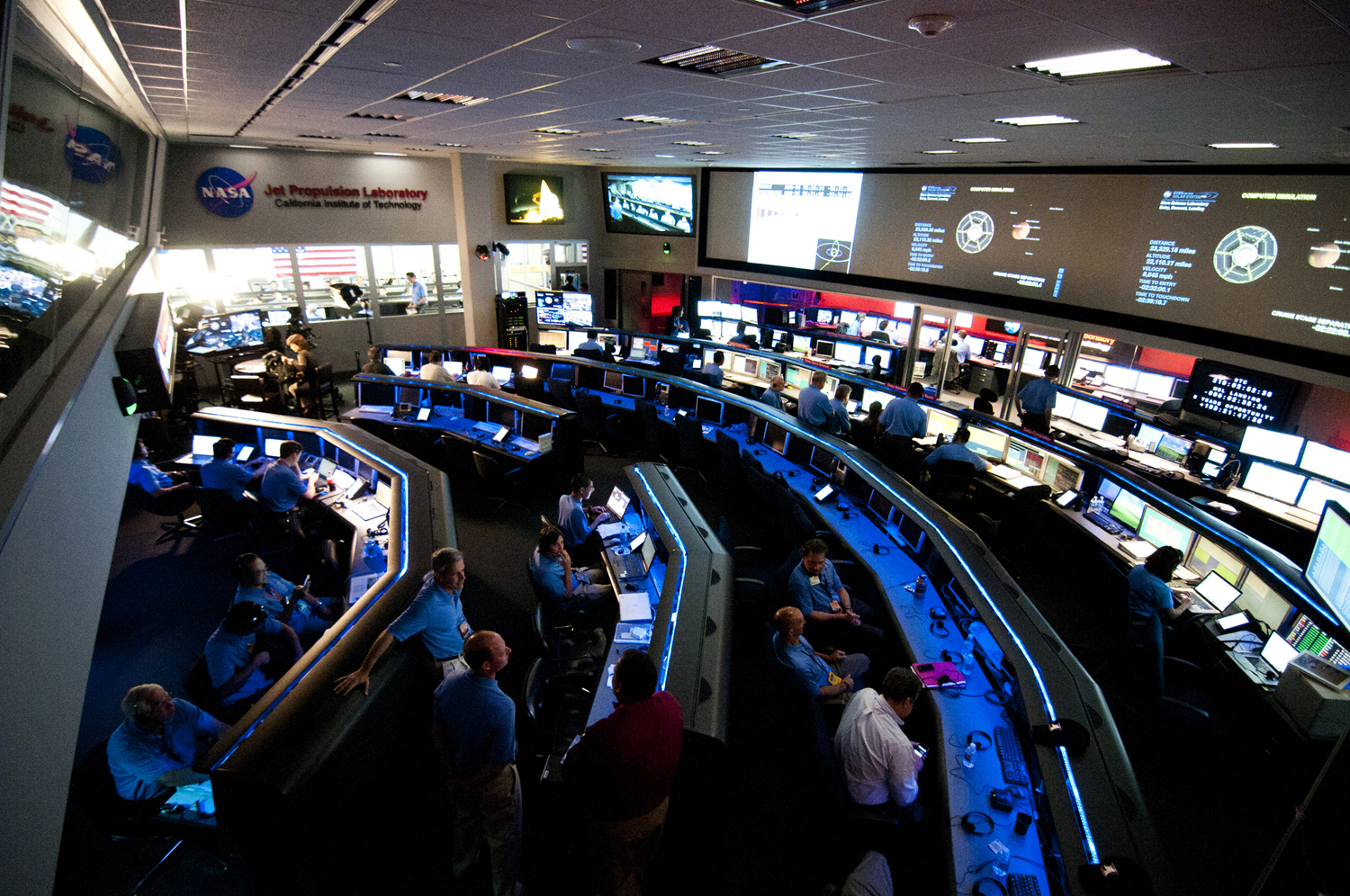 The Space Flight Operations Center, a National Historic Landmark, has been operational and staffed every day since 1964. Here engineers send and receive commands for any spacecraft in, and beyond, our Solar System.